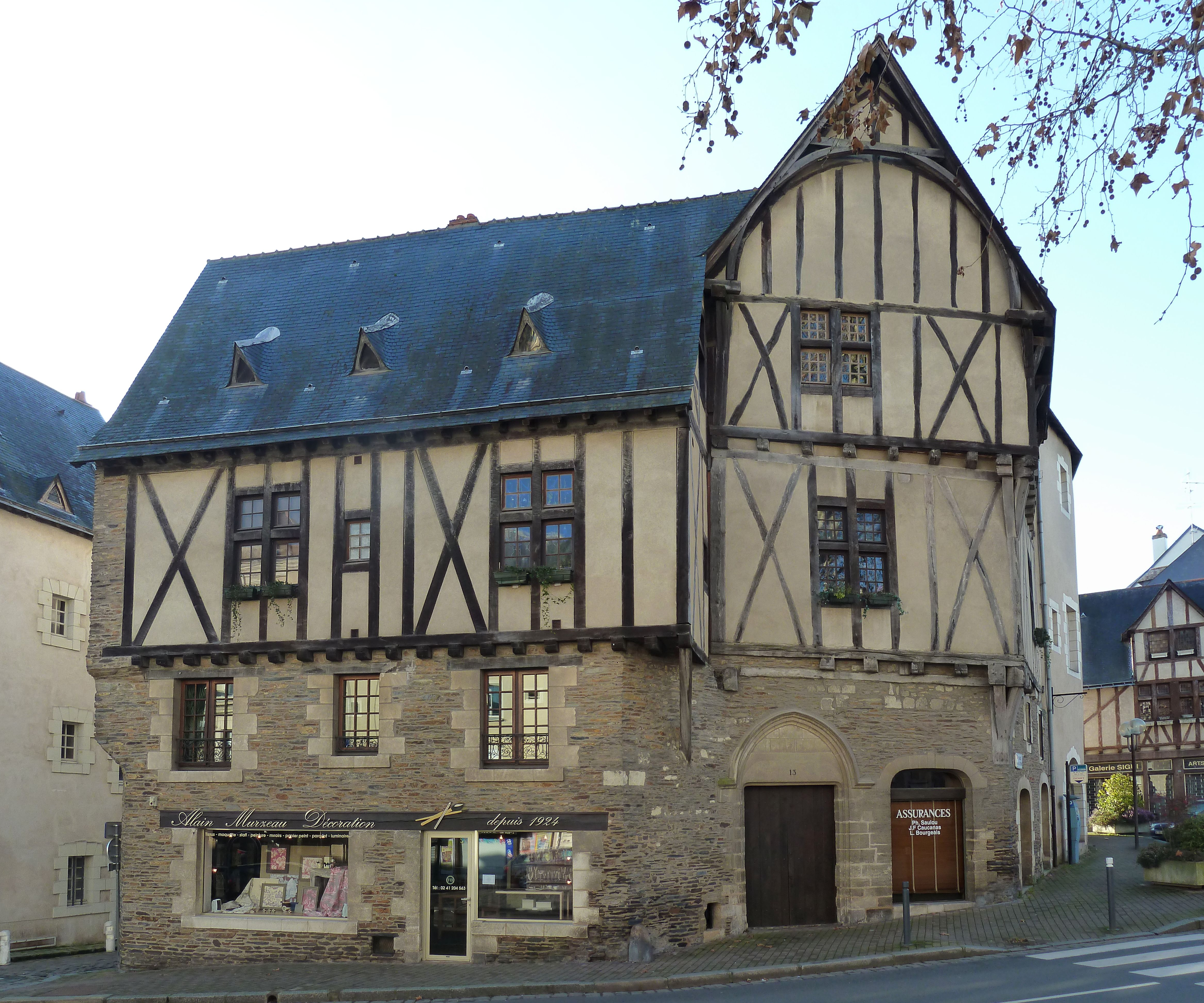 Sabart's hotel, a 12th and 15th century house, 11 to 15 place de la Laiterie (Milkery Place) in Angers, Maine-et-Loire, Pays de la Loire, France.